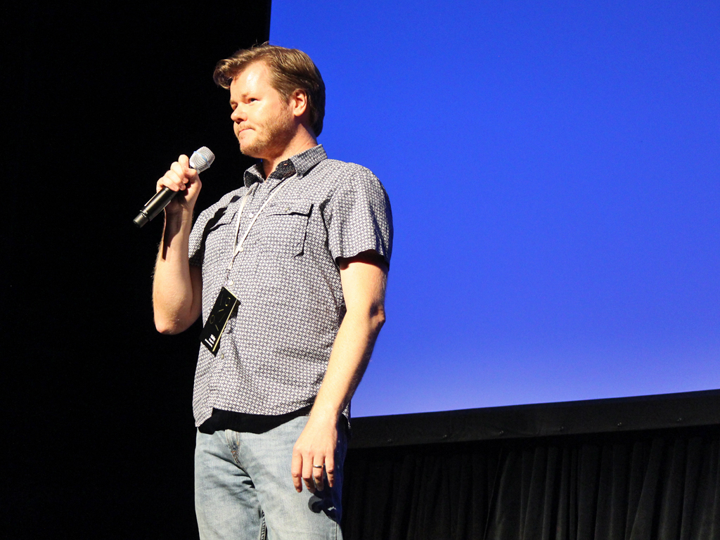 Kirby Ferguson presenting at XOXO 2015